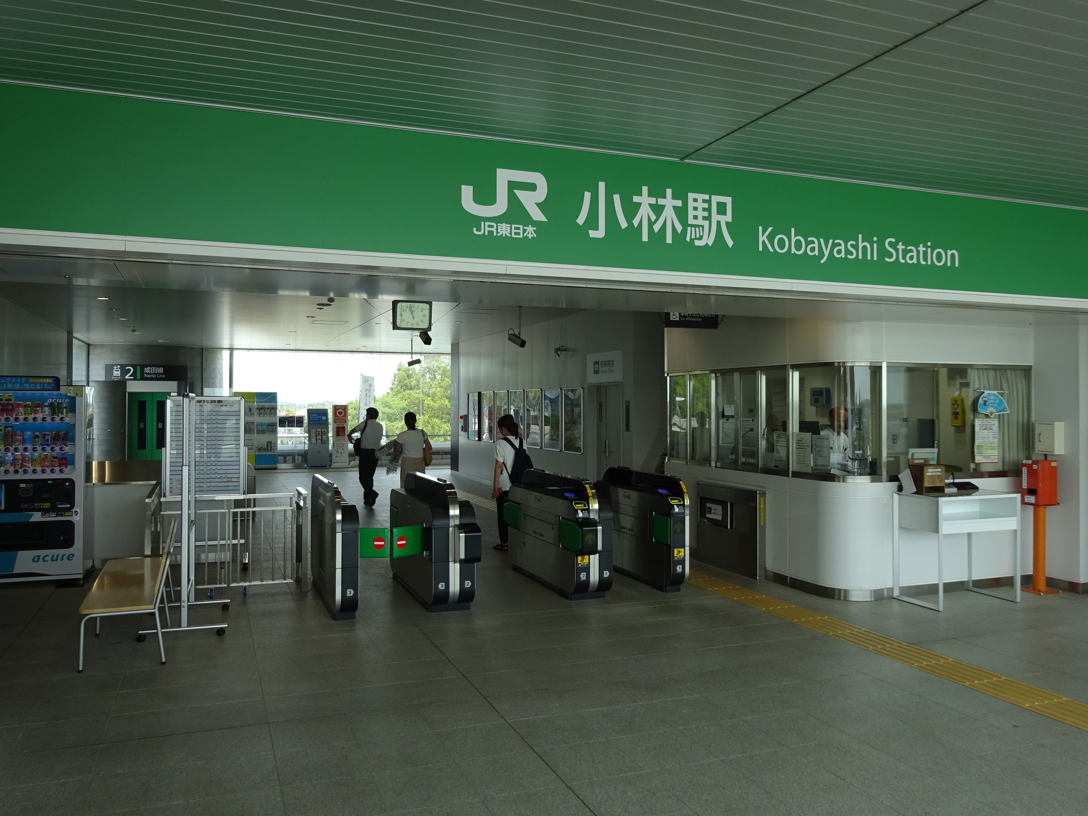 Ticket barriers of Kobayashi Station (Chiba)